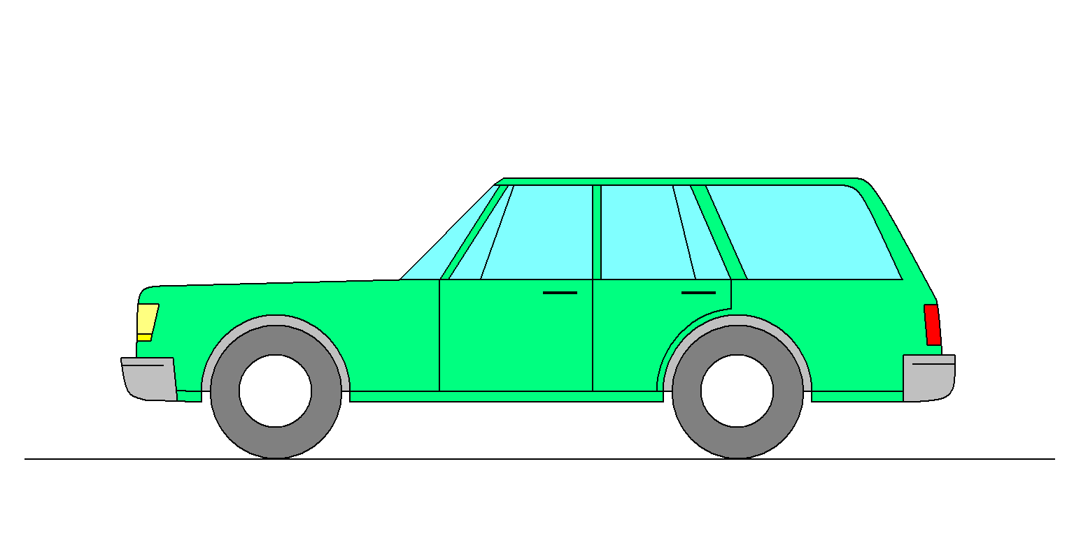 Cartype Wagon (Combi)